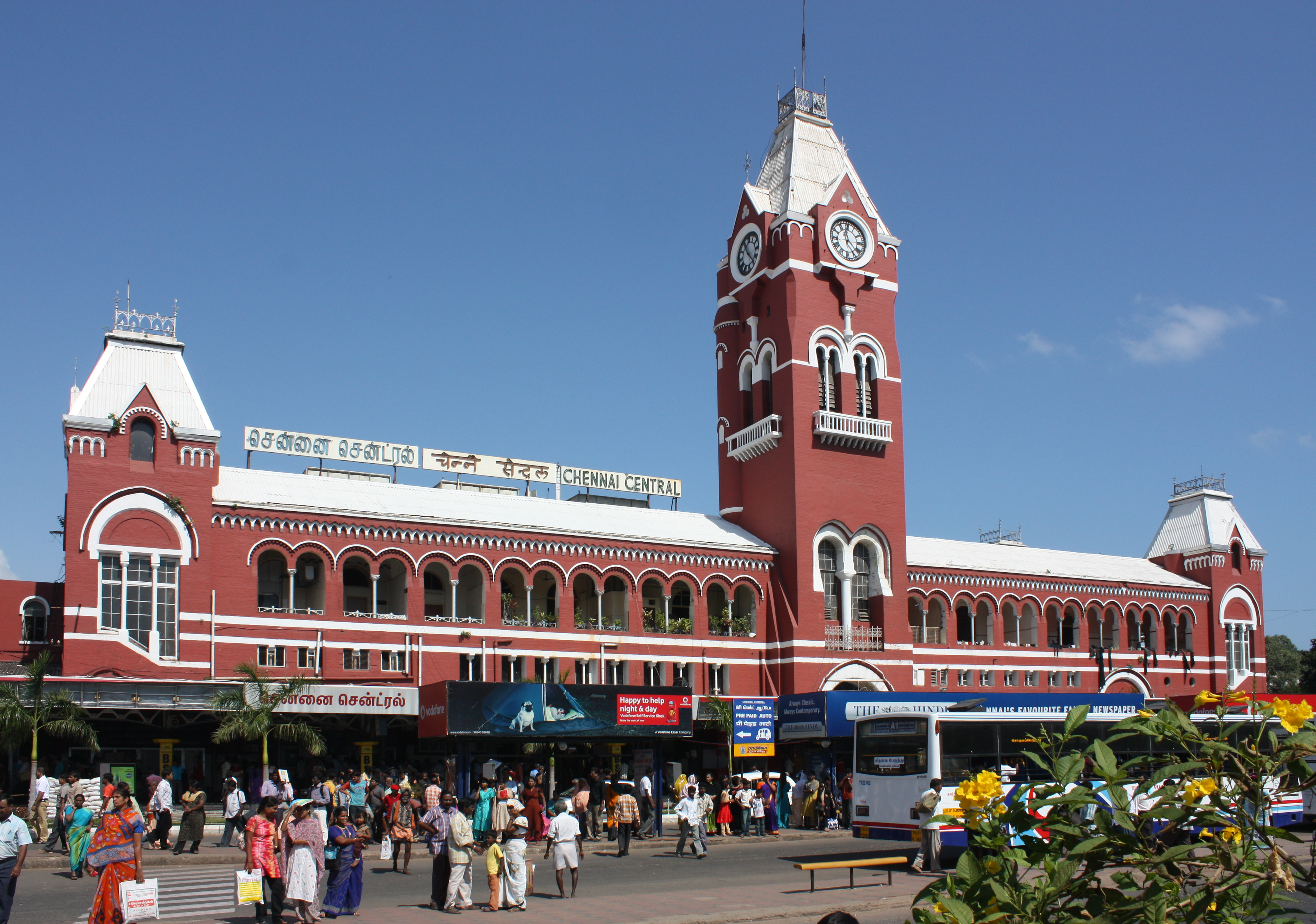 The central train station in Chennai, Tamil Nadu state, India.